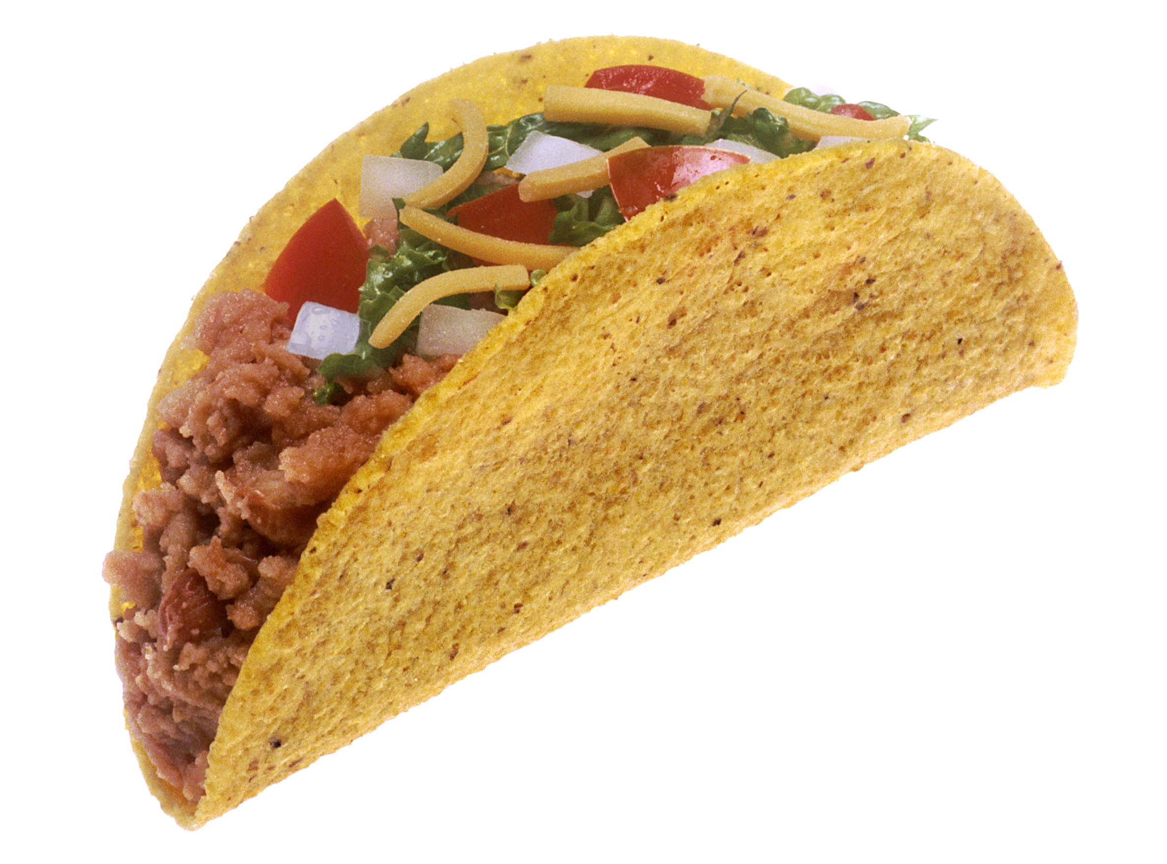 Hard-shell taco with meat, cheese, lettuce, tomatoes, and onions